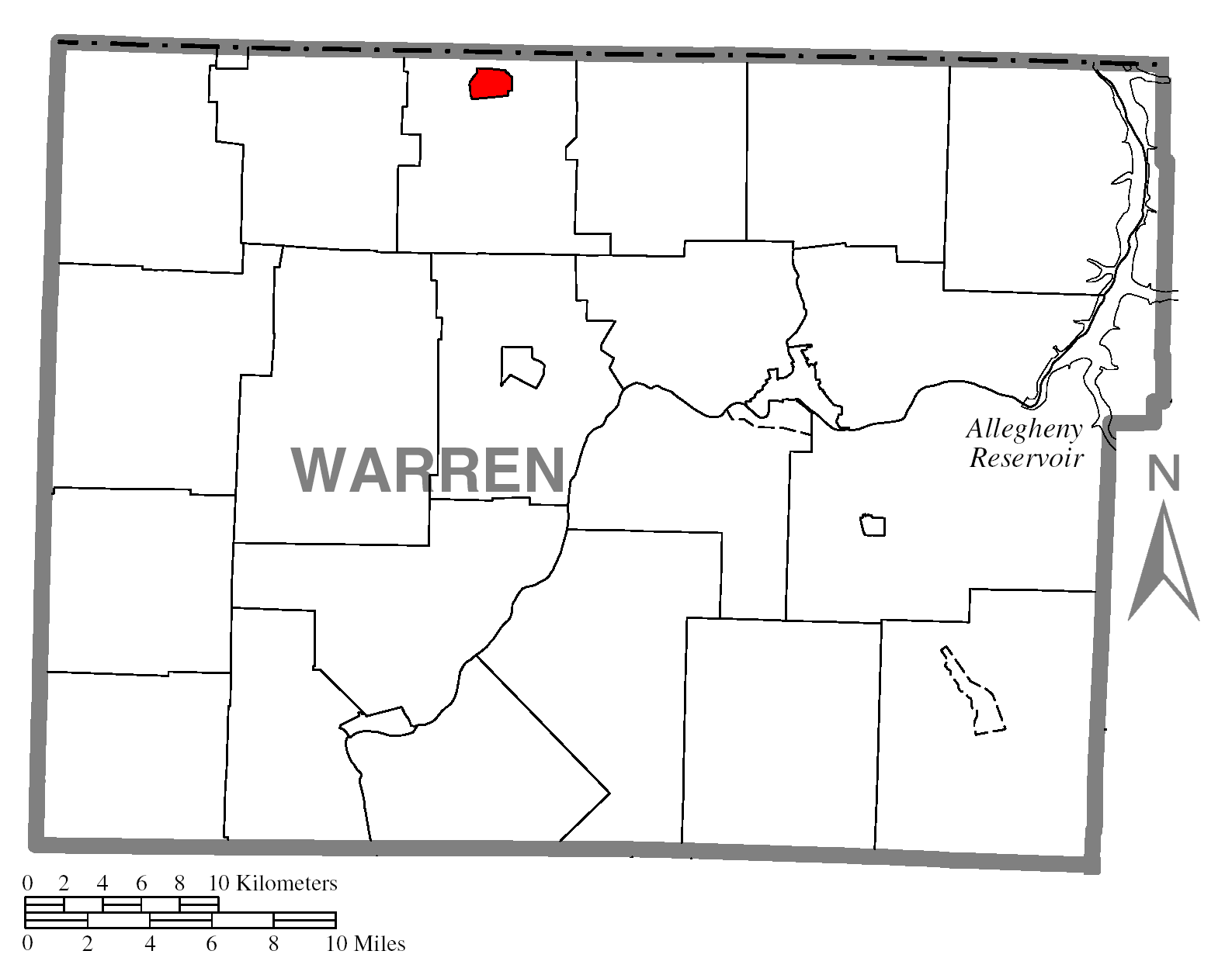 Map of Warren County higlighting Sugar Grove.